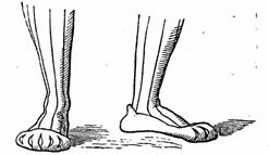 So-called Bärenklauen (“bear claws”), a mediavel type of shoes.